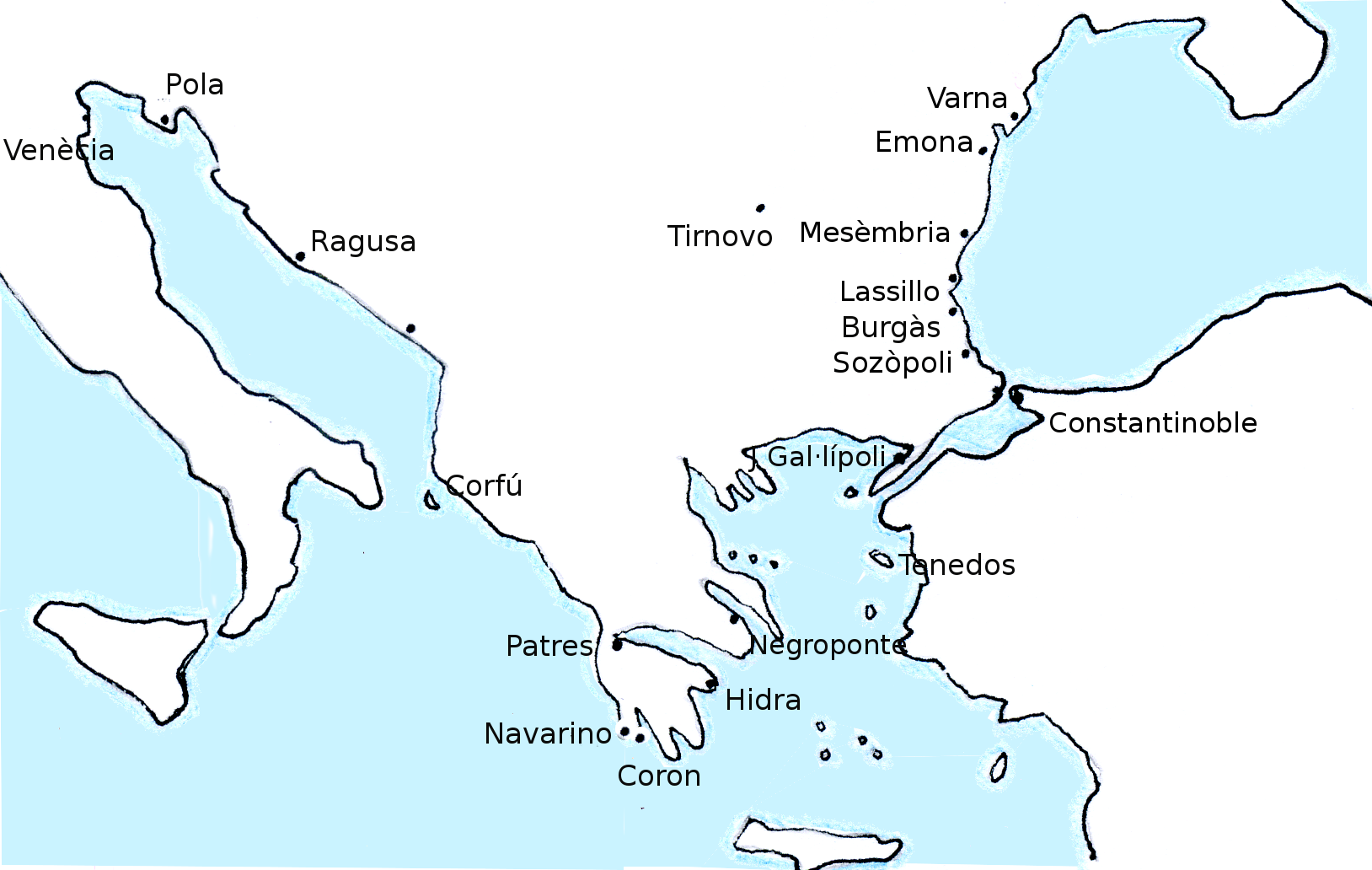 Map showing the places of the Savoyard Crusade (1366-1367).